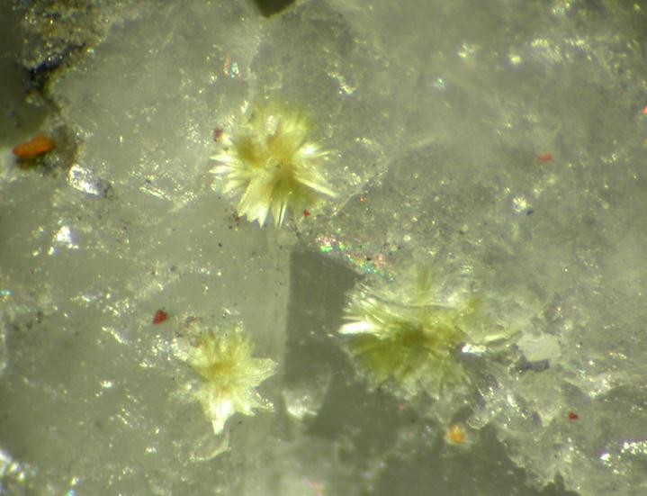 Ferrimolybdite Locality: Herzogenhügel (Hertogenwald; La Helle), Ternell, Eupen, Liège Province, Belgium Yellow sprays of Ferrimolybdite on Quartz. Field of view 3mm. Specimen and photo Leon Hupperichs.